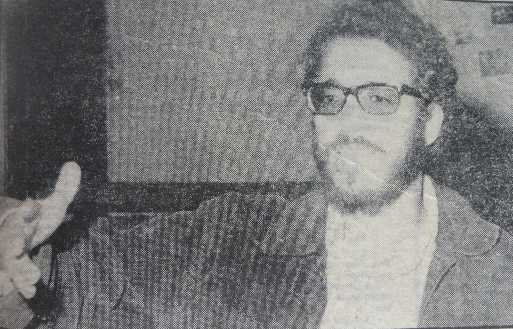 Kadour Naimi interview about his theatrical piece Mon Corps, Ta Voix et Sa Pensée (My Body, Your Voice and His Thought), Algiers (Algeria), 1969.